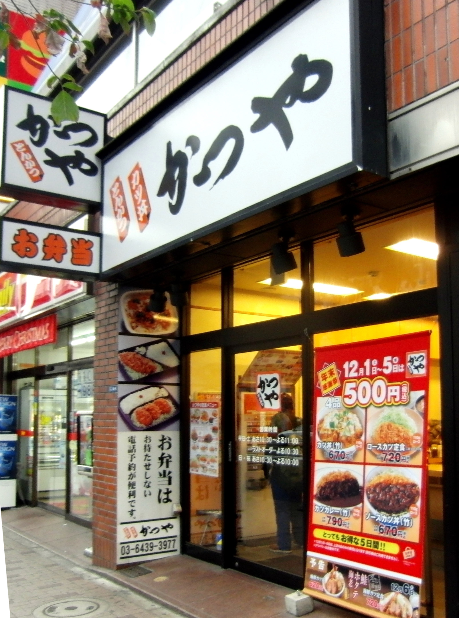 Tonkatsu Restaurant "Katsuya" Roppongi store, Roppongi, Minato, Tokyo, Japan